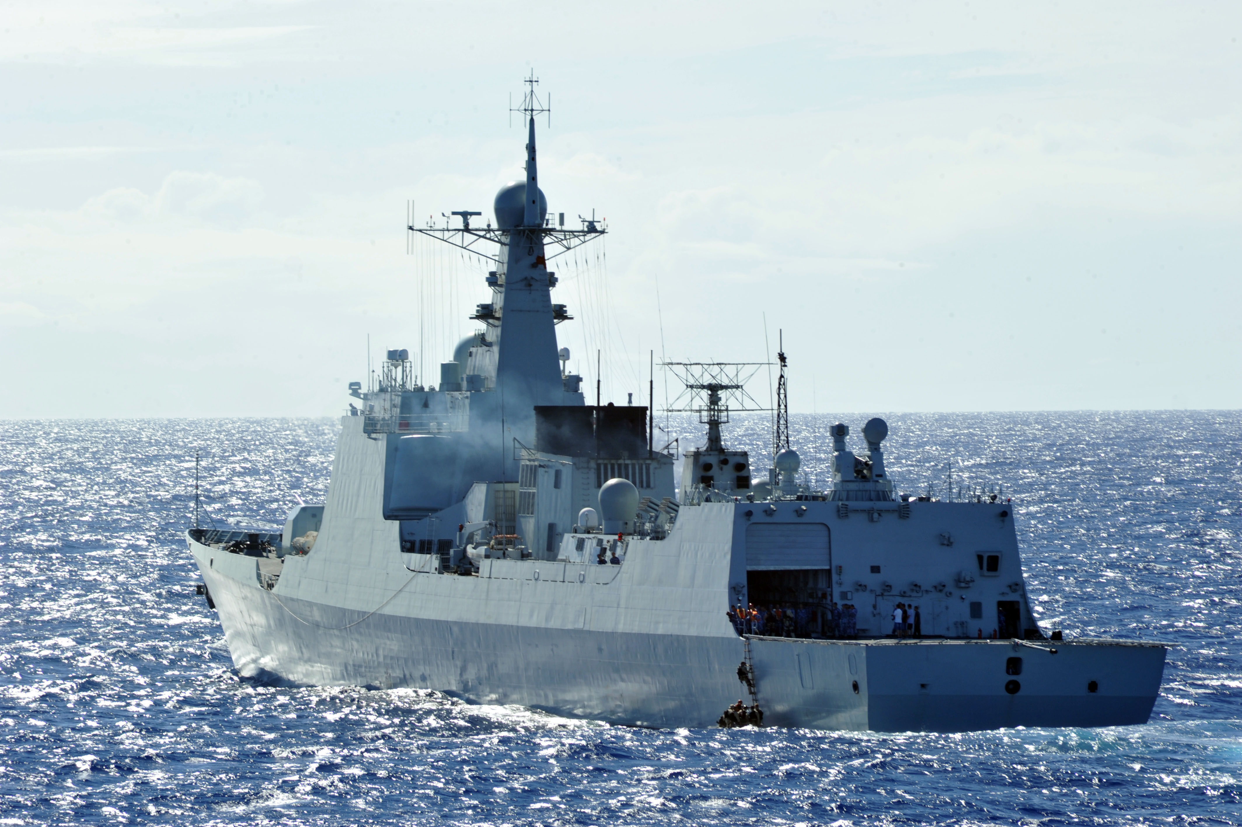 U.S. Navy Sailors assigned to the visit, board, search and seizure detachment four, the Four Horsemen, from the littoral combat ship USS Independence (LCS 2) perform a compliant boarding aboard the People's Liberation Army Navy frigate Yueyang (FF 575) during Rim of the Pacific (RIMPAC) Exercise 2014. Twenty-two nations, 49 ships, six submarines, more than 200 aircraft and 25,000 personnel are participating in RIMPAC from June 26 to Aug. 1 in and around the Hawaiian Islands and Southern California.